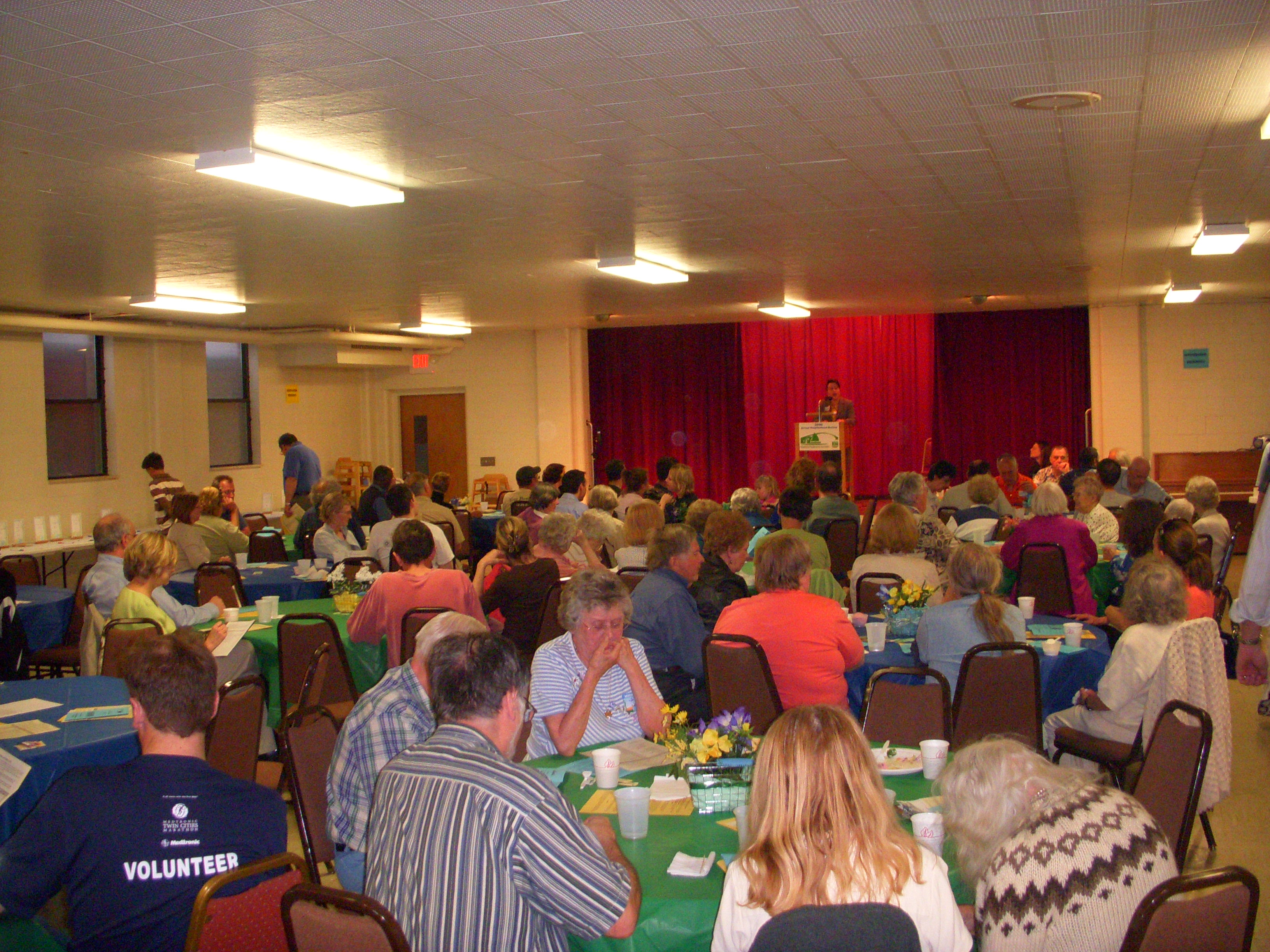 A photo of the Nokomis East Neighborhood Organization's Town Meeting in the basement of the Minnehaha United Methodist Church on May 15th, 2008.